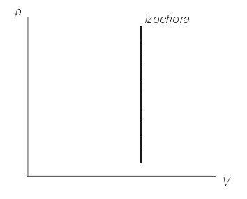 PV-diagram for Isochoric process with Czech description